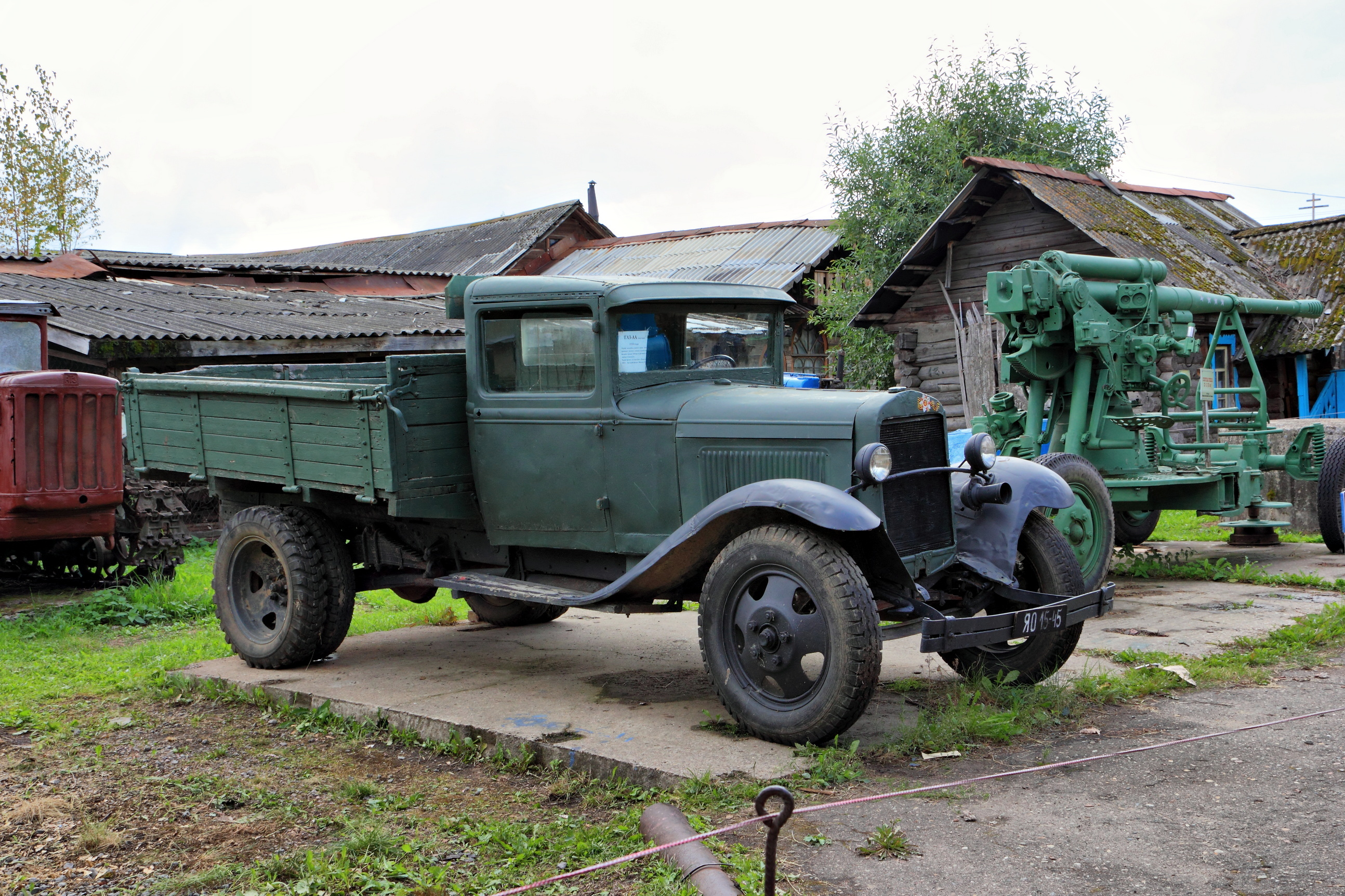 Myshkin. Museum unique technology. GAZ-AA